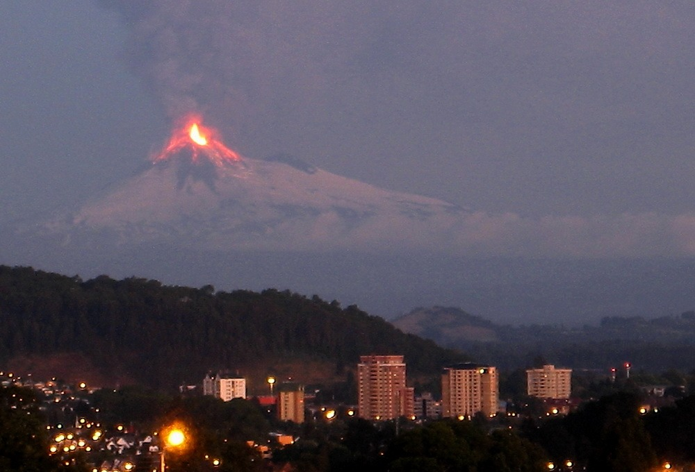 Llaima volcano eruption viewed from Temuco (Araucanía Region, Chile)